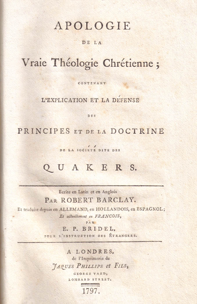 Title page of the book from Robert Barclay: Apologie de la vraie théologie chrétienne contenant l'explication et la défense des principes et de la doctrine de la société dite des quakers (in French), Londres, Jaques Phillips et fils, 1797